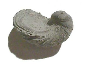 Photograph of the fossil bivalve Gryphaea taken by Dlloyd. Gryphaea arcuata from the Jurassic Lower Lias Formation. Locality - Gloucestershire, England. Complete matrix free specimen measuring 6.8 cm (2.7") in length.